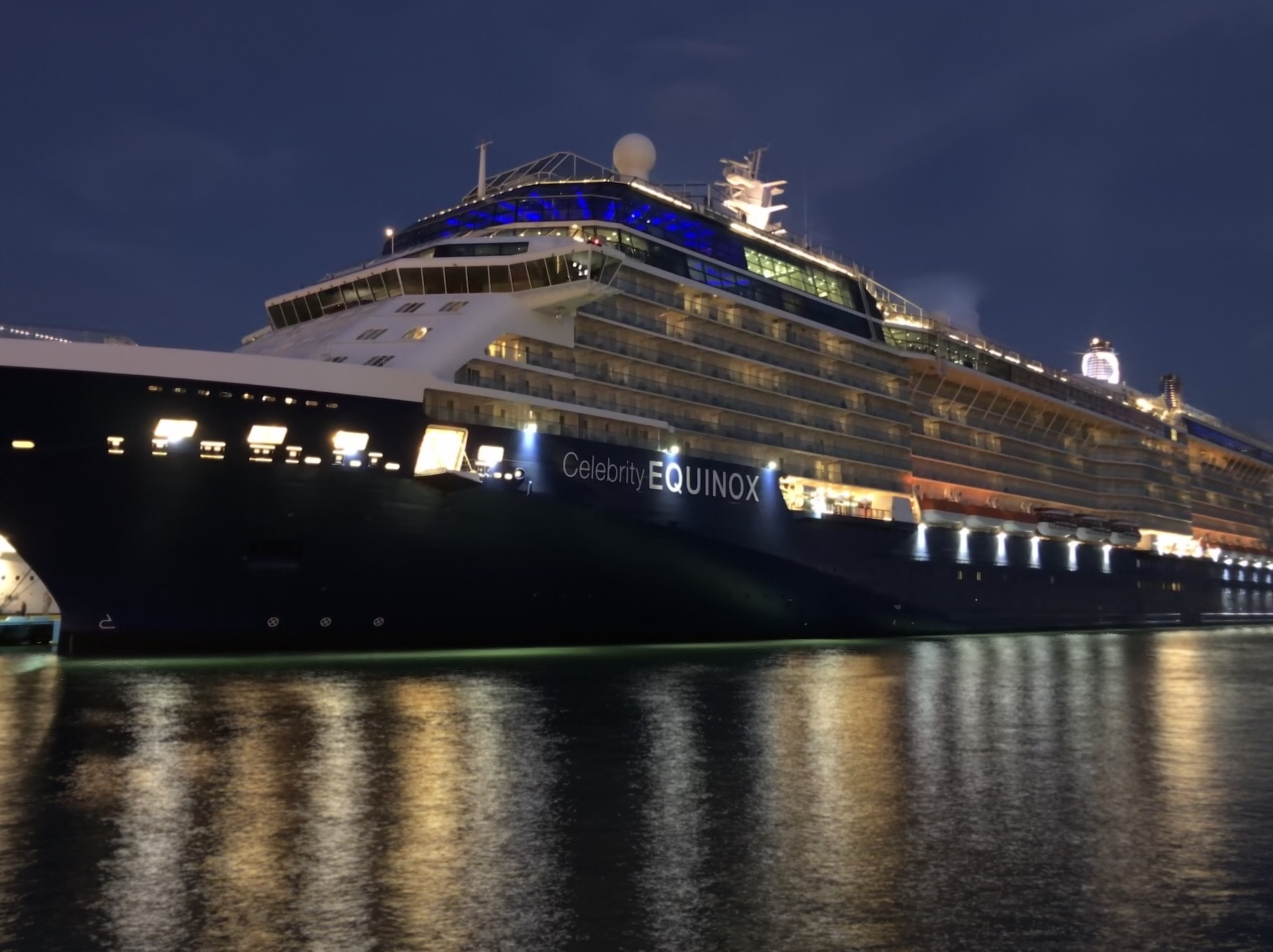 MV Celebrity Equinox cruise ship docked in San Juan, PR. Post dry dock image.